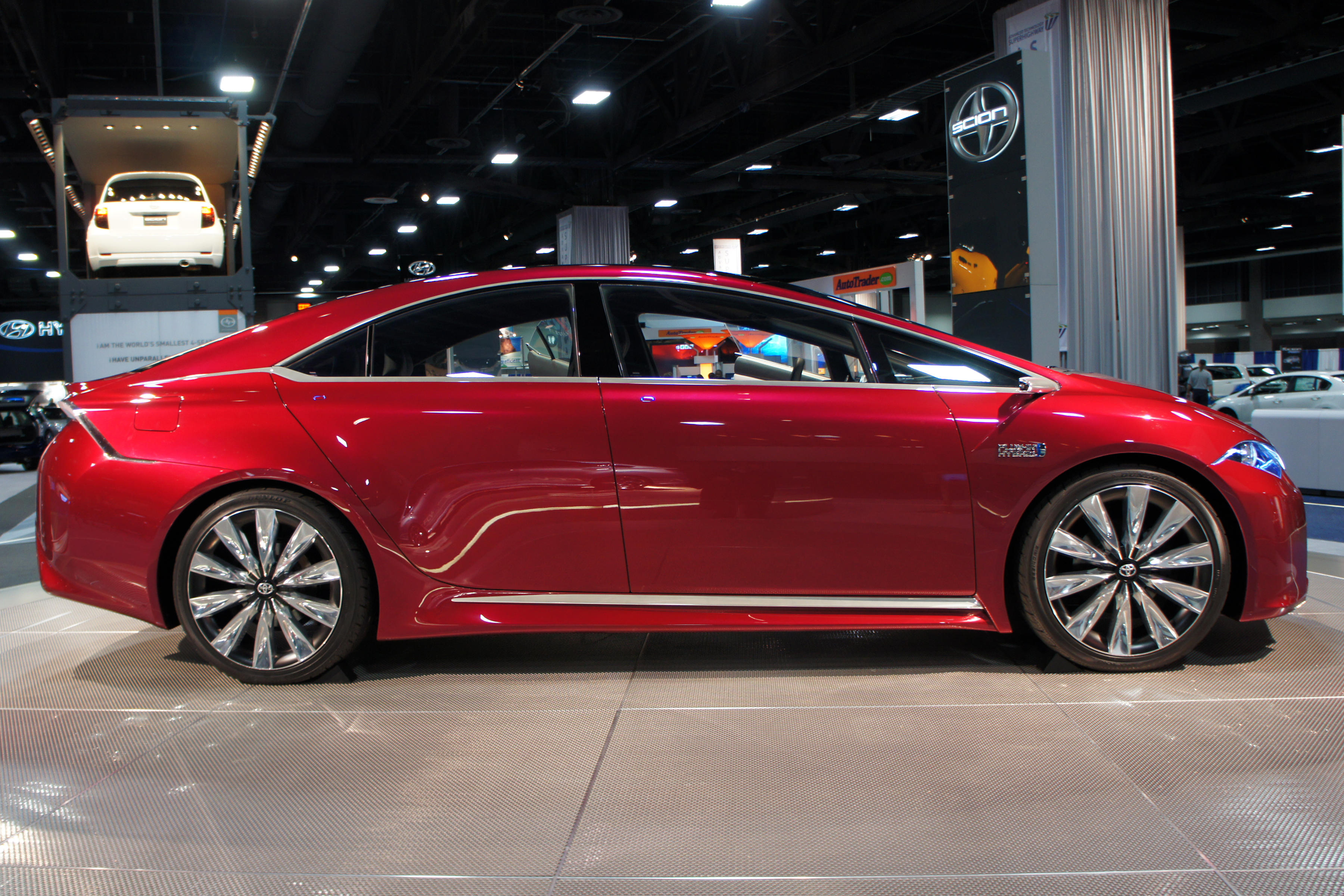 Toyota NS4 plug-in hybrid concept exhibited at the 2012 Washington Auto Show, District of Columbia.